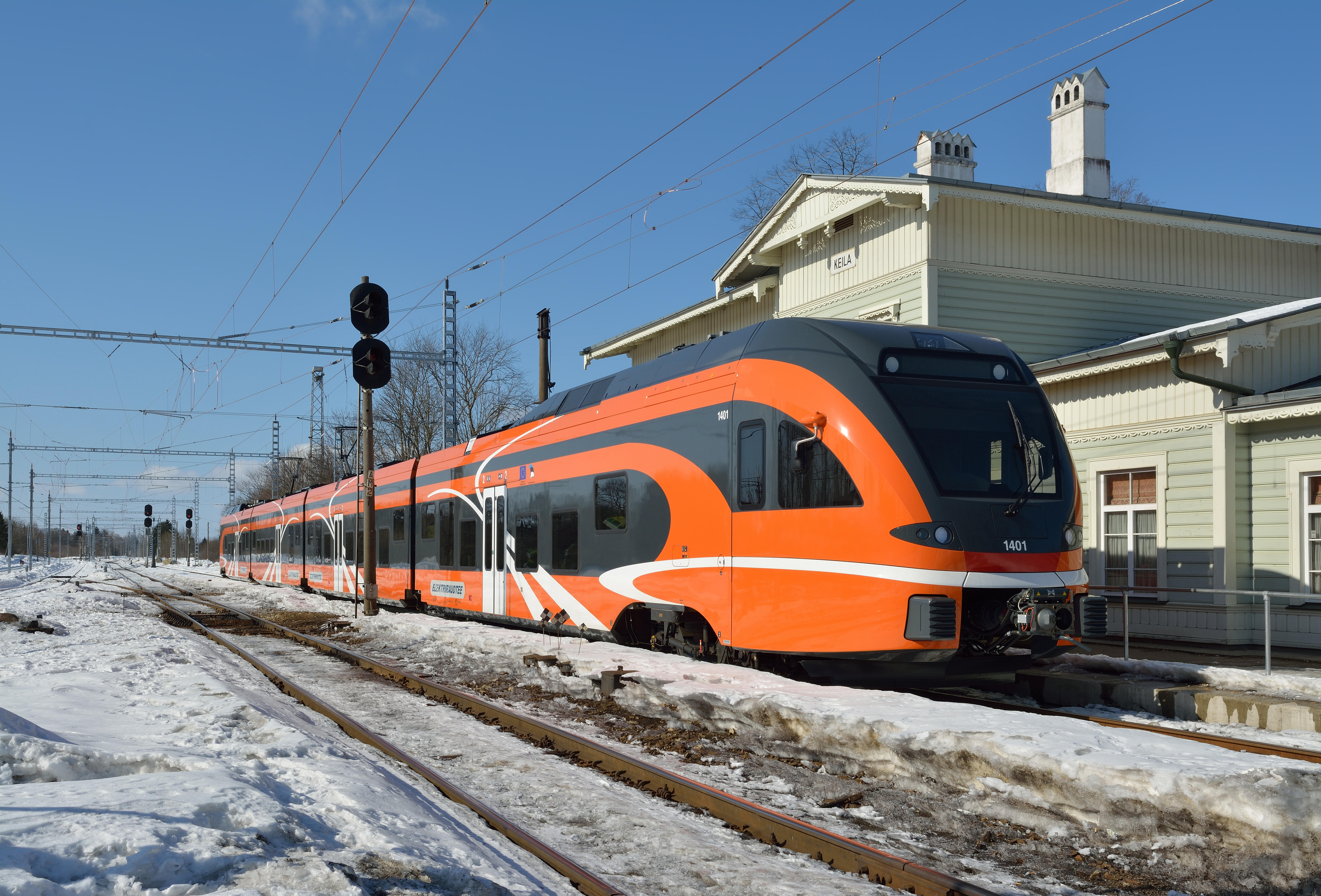 Stadler Flirt in Keila station (testing period)